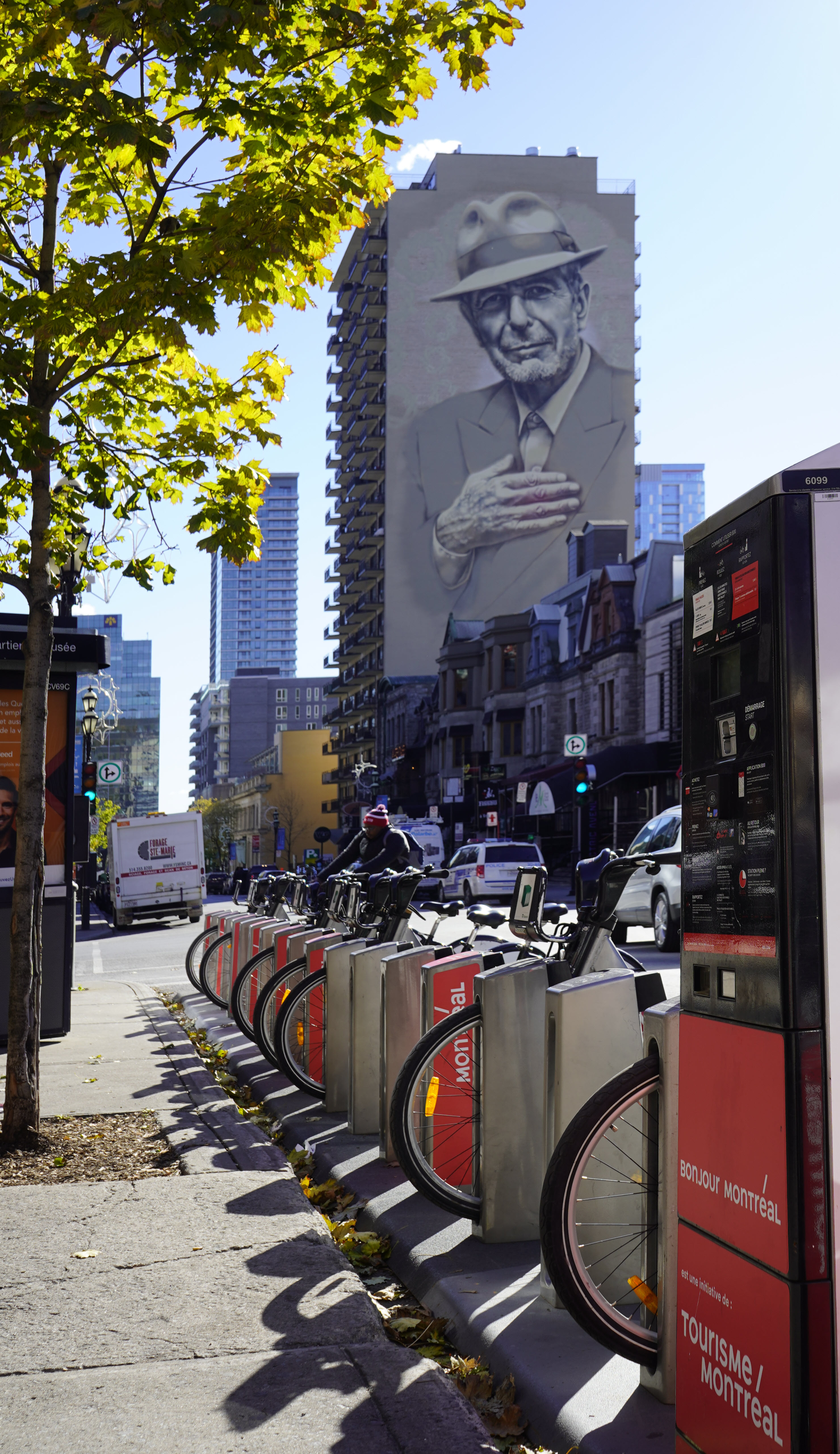 A Bixi station and the mural tribute to Leonard Cohen, Crescent Street, Montreal (2018).